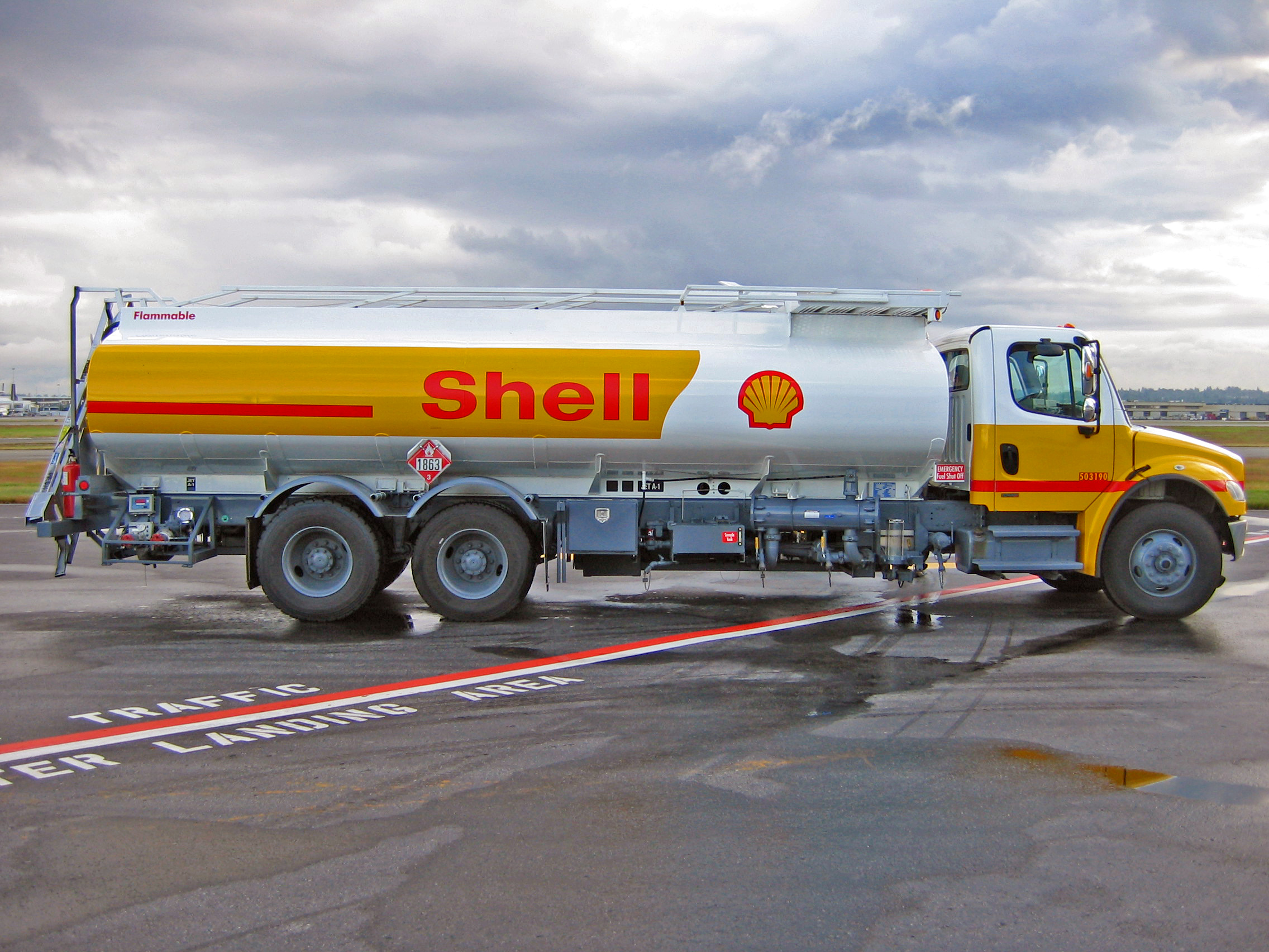 A Shell Jet A refueller truck on the ramp at Vancouver International Airport. Image taken by me on July 7, 2005, and released under the GFDL. -Lommer